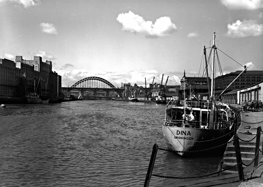 View along Newcastle upon Tyne Quayside, June 1961 (TWAM ref. DT.TUR/2/26897A). You can also see the Baltic Flour Mills, Gateshead. Tyne & Wear Archives presents a series of images taken by the Newcastle-based photographers Turners Ltd. The firm had an excellent reputation and was regularly commissioned by local businesses to take photographs of their products and their premises. Turners also sometimes took aerial and street views on their own account and many of those images have survived, giving us a fascinating glimpse of life in the North East of England in the second half of the Twentieth Century. (Copyright) We're happy for you to share these digital images within the spirit of The Commons. Please cite 'Tyne & Wear Archives & Museums' when reusing. Certain restrictions on high quality reproductions and commercial use of the original physical version apply though; if you're unsure please